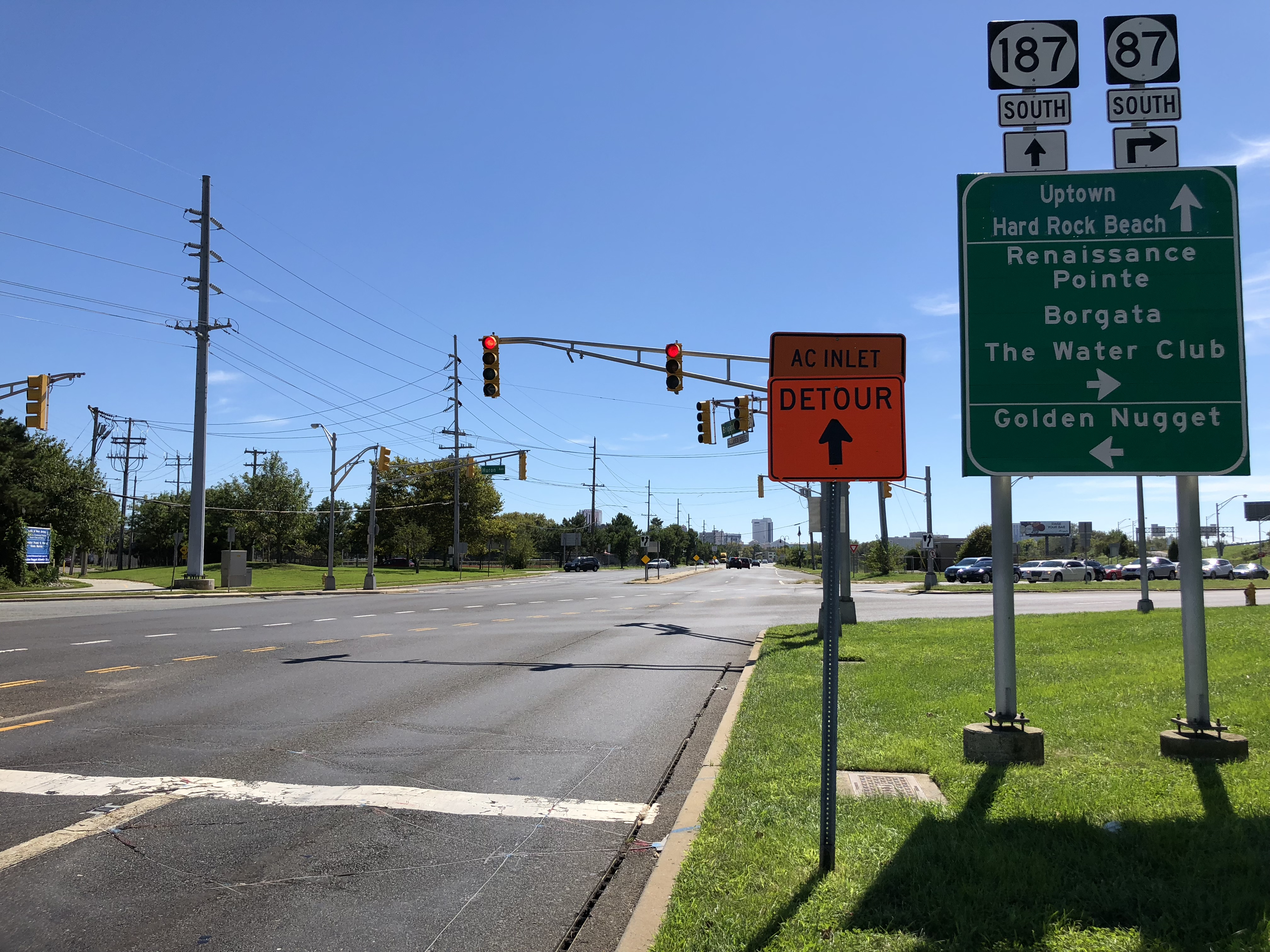 View south along New Jersey State Route 87 (Brigantine Boulevard) at Huron Avenue and New Jersey State Route 187 in Atlantic City, Atlantic County, New Jersey